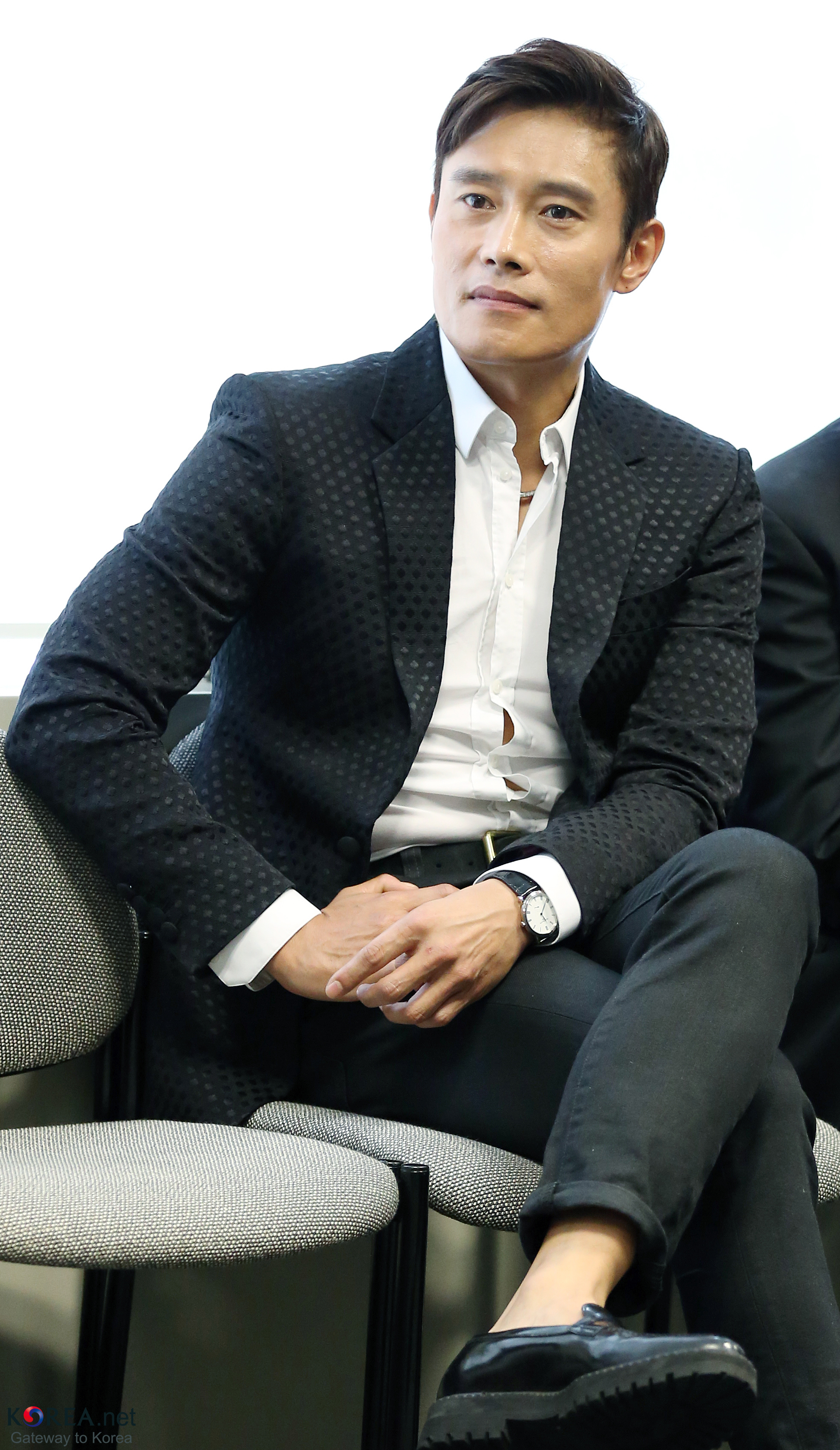 Actor Lee Byung-hun APSA(Asia Pacific Screen Awards) June 3, 2014 Australian Embassy, Seoul Related Article Cheong Wa Dae ‘I will strive to become a world-class actor’: Lee Byung-hun -English- ‘I will strive to become a world-class actor’: Lee Byung-hun -中文- 李秉宪：我会努力成为世界级的明星 -日本語- イ・ビョンホン「世界的な俳優を目指して頑張ります」 Ministry of Culture, Sports and Tourism Korean Culture and Information Service ( Official Photographer: Jeon Han This official Republic of Korea photograph is CC-BY-SA-2.0-licensed, so while restrictions such as personality or privacy rights may apply, in general, manipulations are allowed. If you require a photograph without a watermark, please use Flickr e-mail. 이병헌 2013 아시아 태평양 스크린 어워즈 남우주연상 수상 2014-06-03 호주대사관 호주센터, 광화문 문화체육관광부 해외문화홍보원 코리아넷 전한